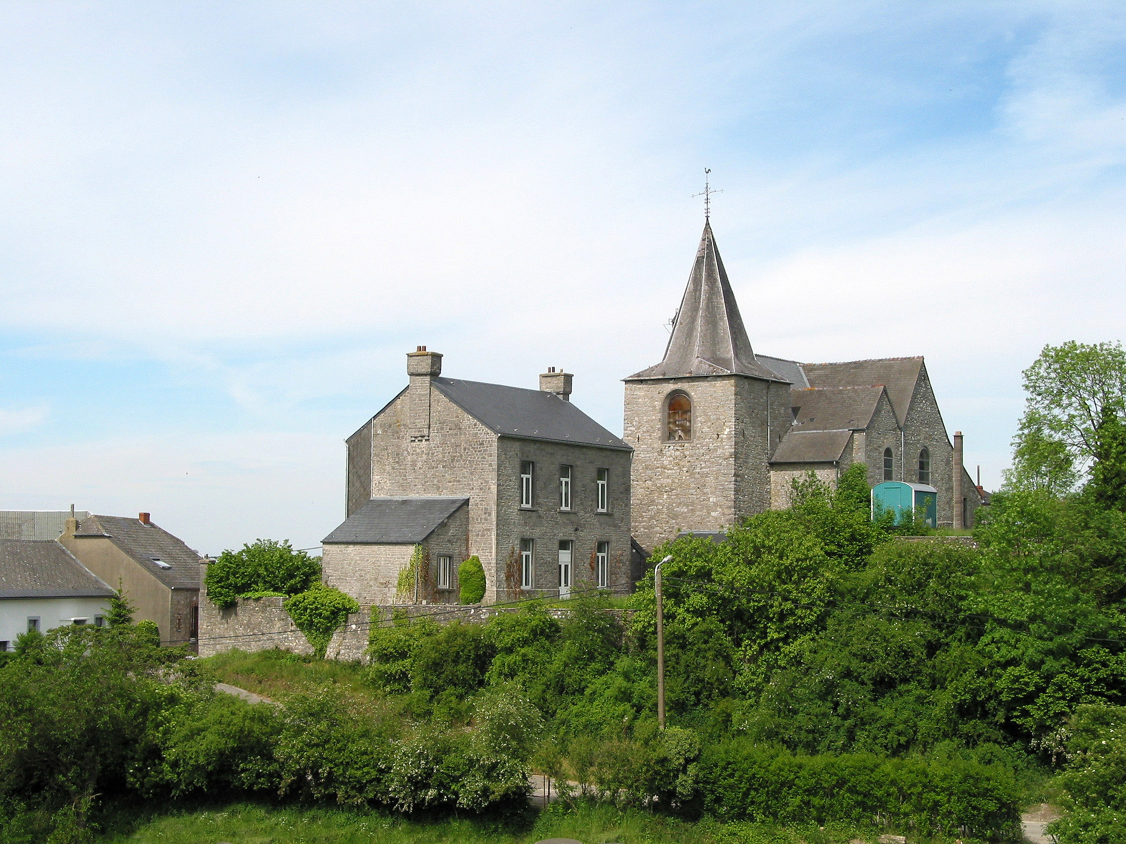 Chastrès (Belgium), the neighbourhood of the church.